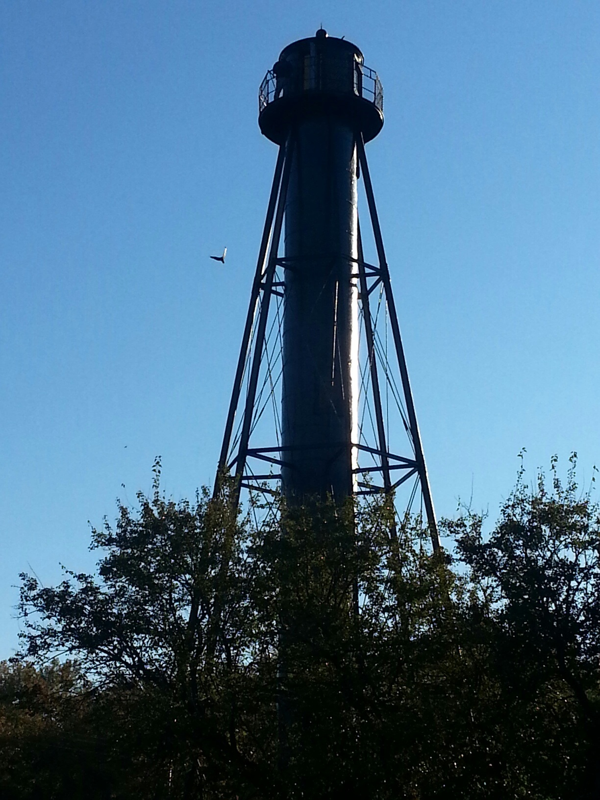 Picture of Finns Point Range Lighthouse in Pennsville Township, NJ